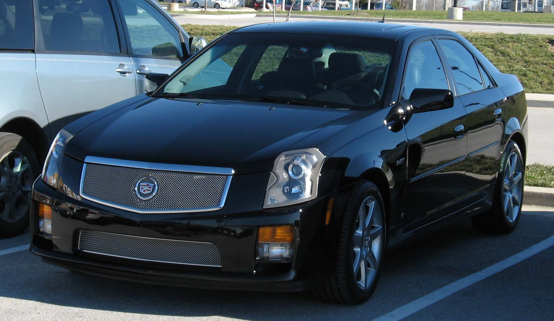 Cadillac CTS-V photographed in USA.